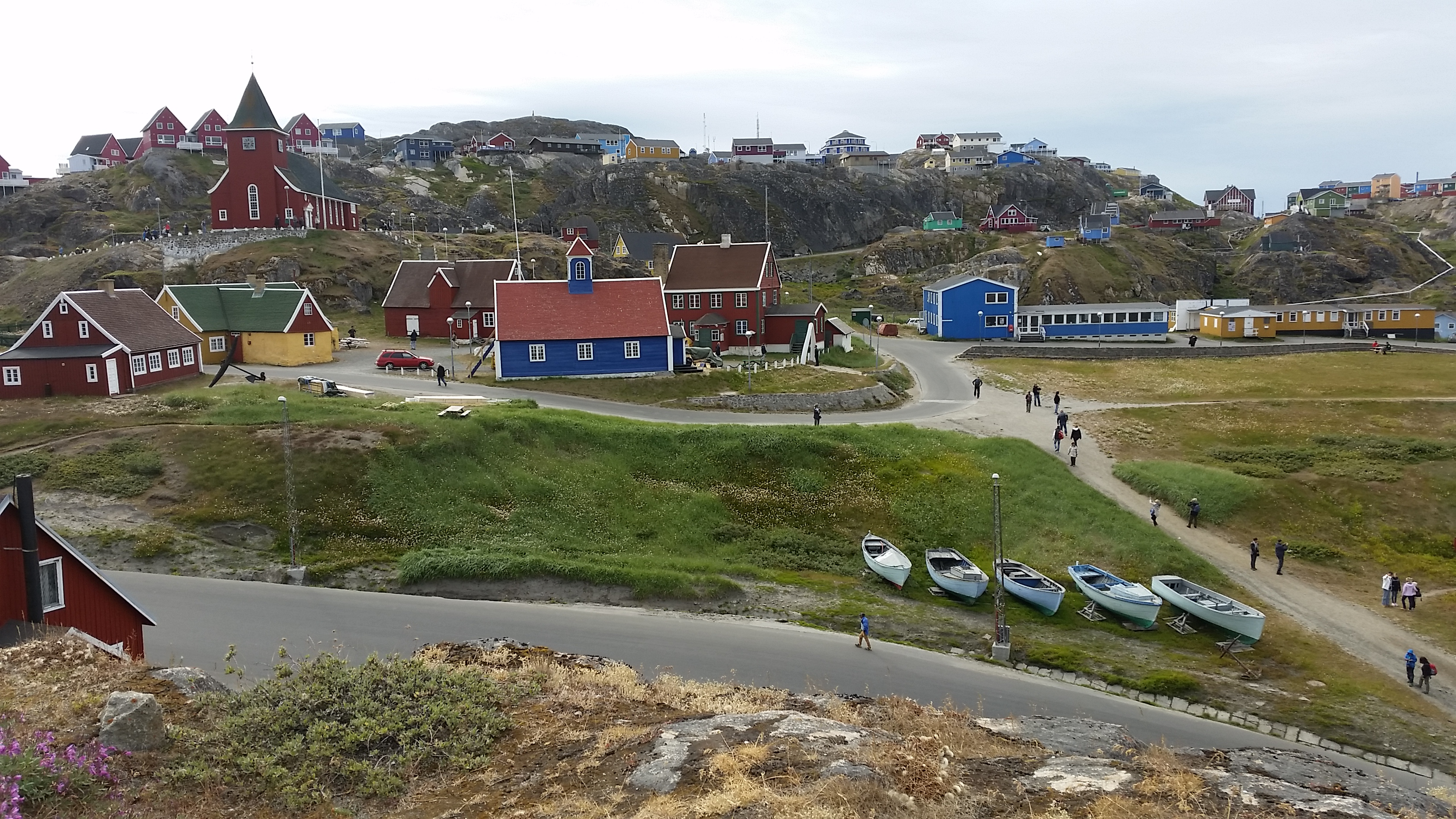 Sisimiut.